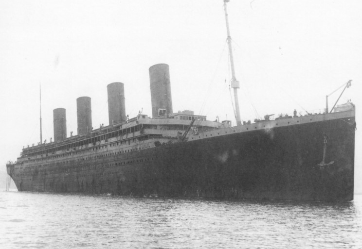 The RMS Olympic at Mudros, Otoman Empire, prior to World War One